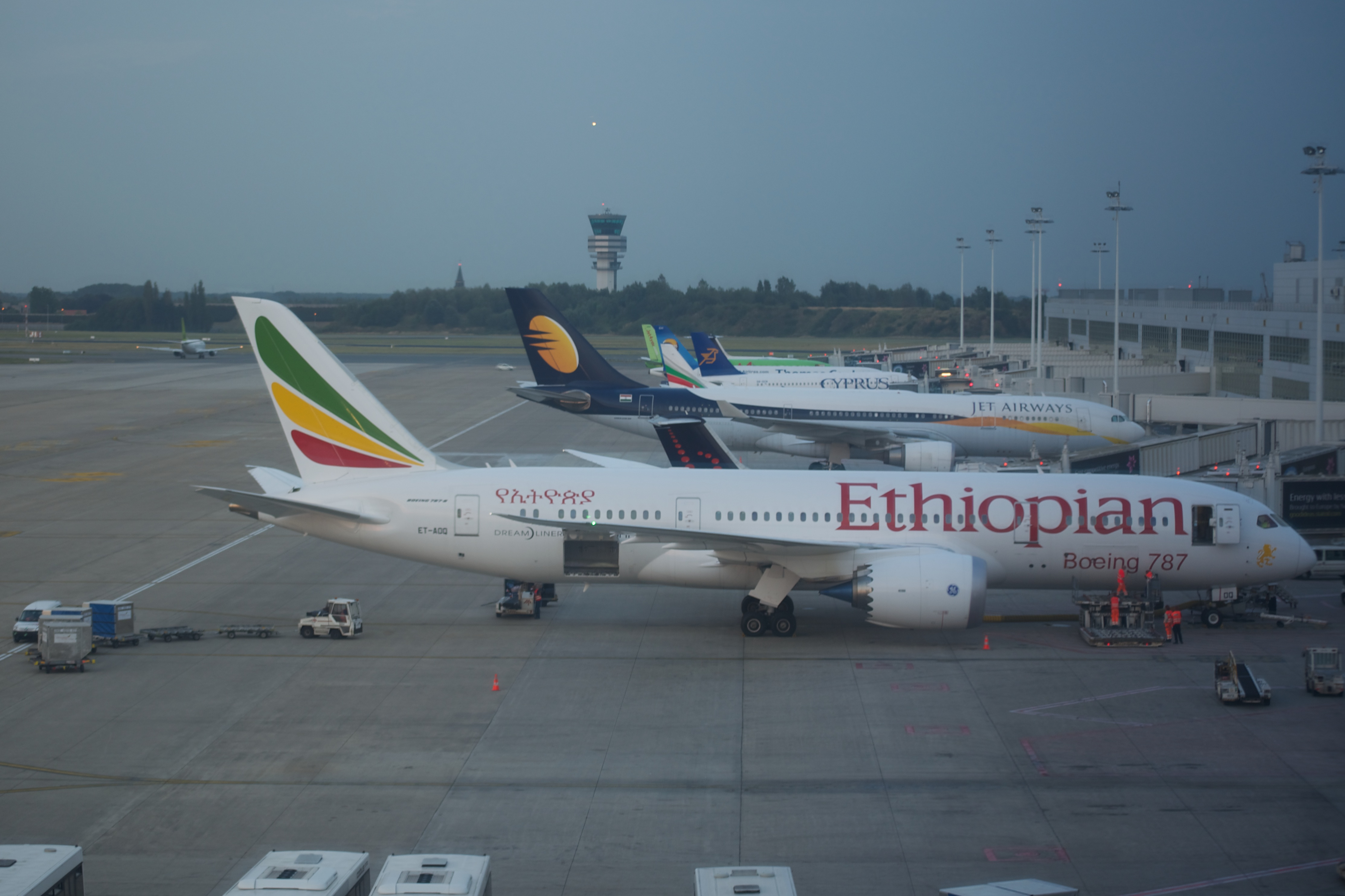 ET-AOQ Boeing B787 Dreamliner of Ethiopian Airlines at Brussels Airport.